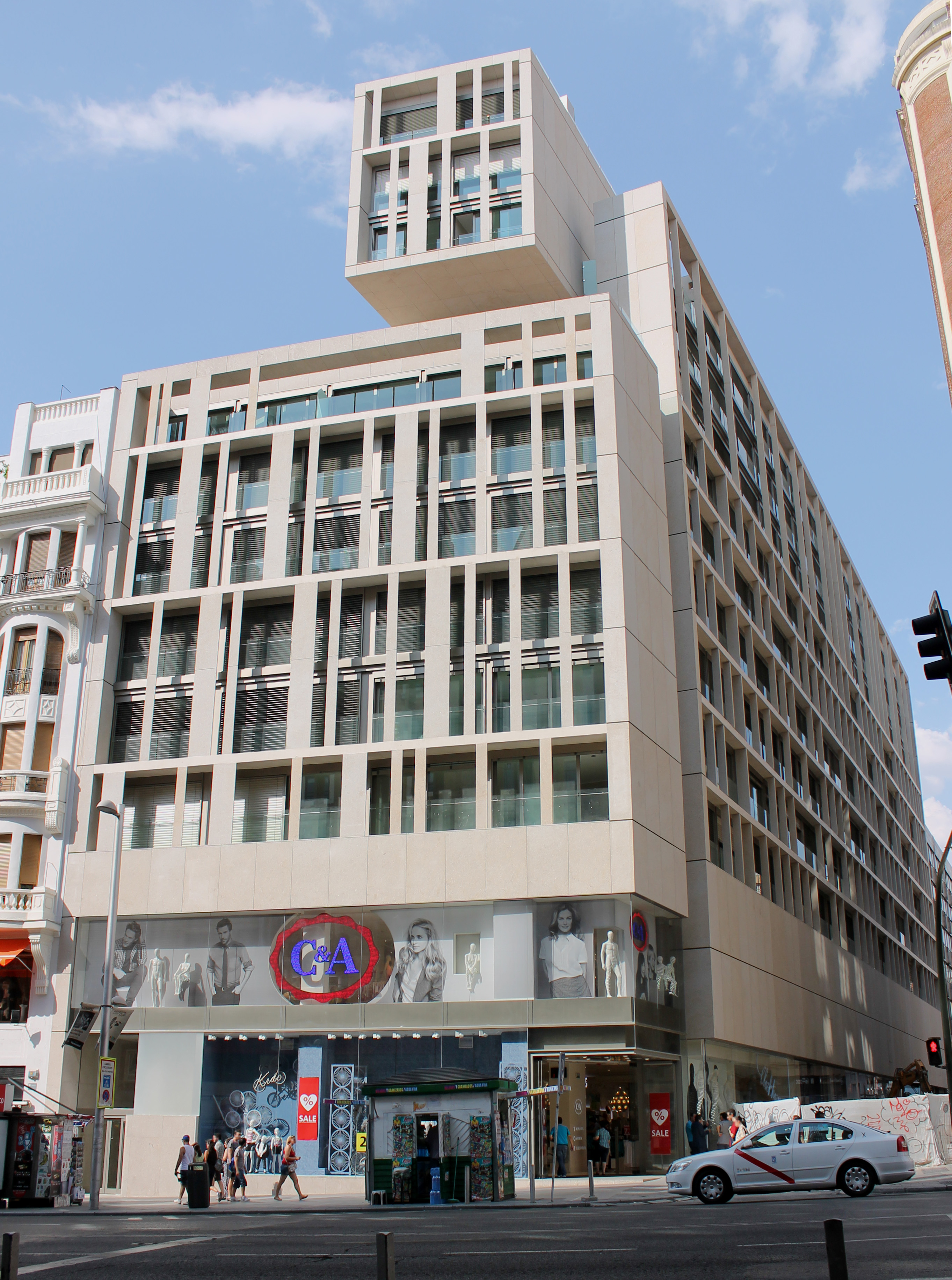 Façade of Gran Vía 48 building in Madrid (Spain).